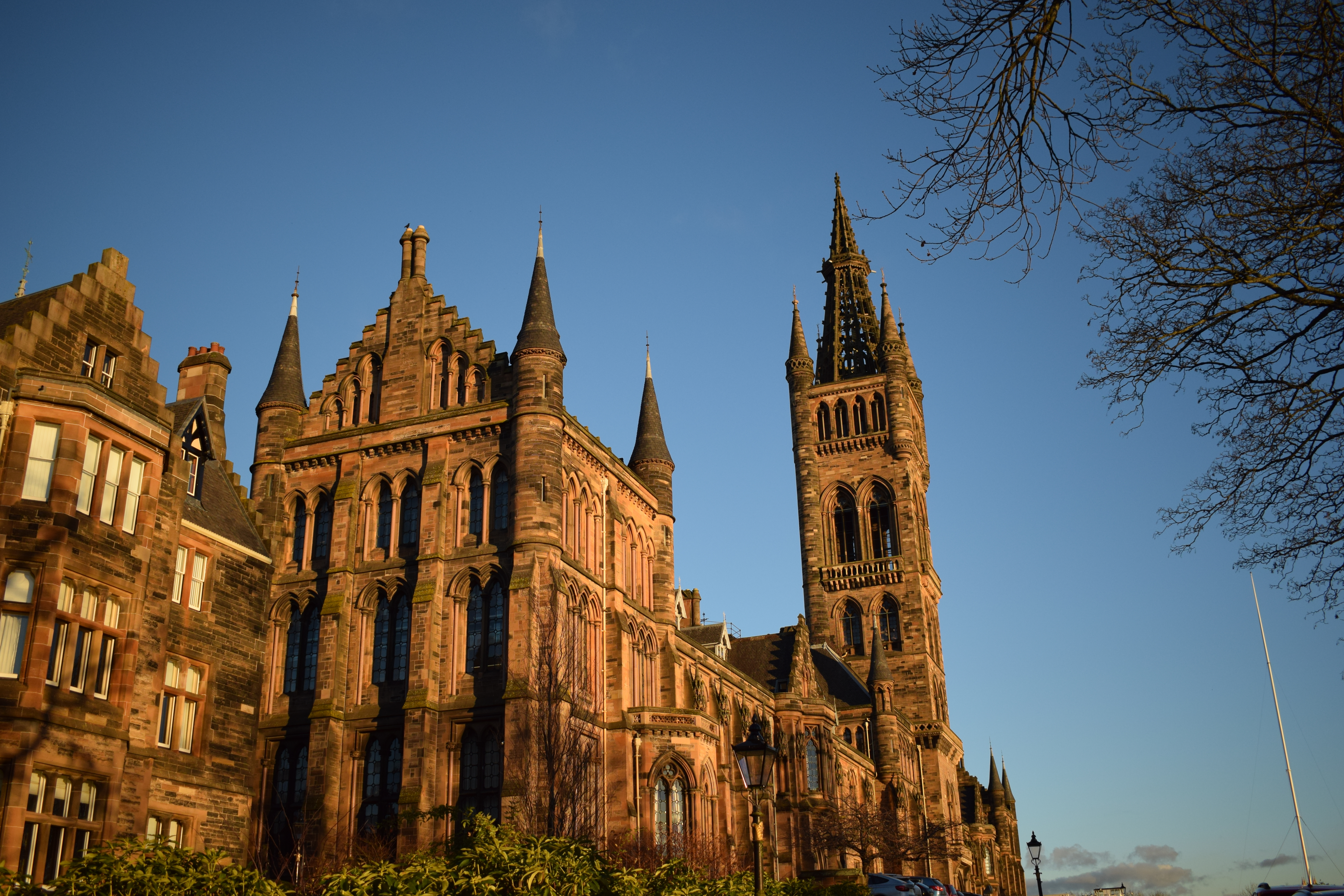 University of Glasgow's main building (Glasgow, Scotland).